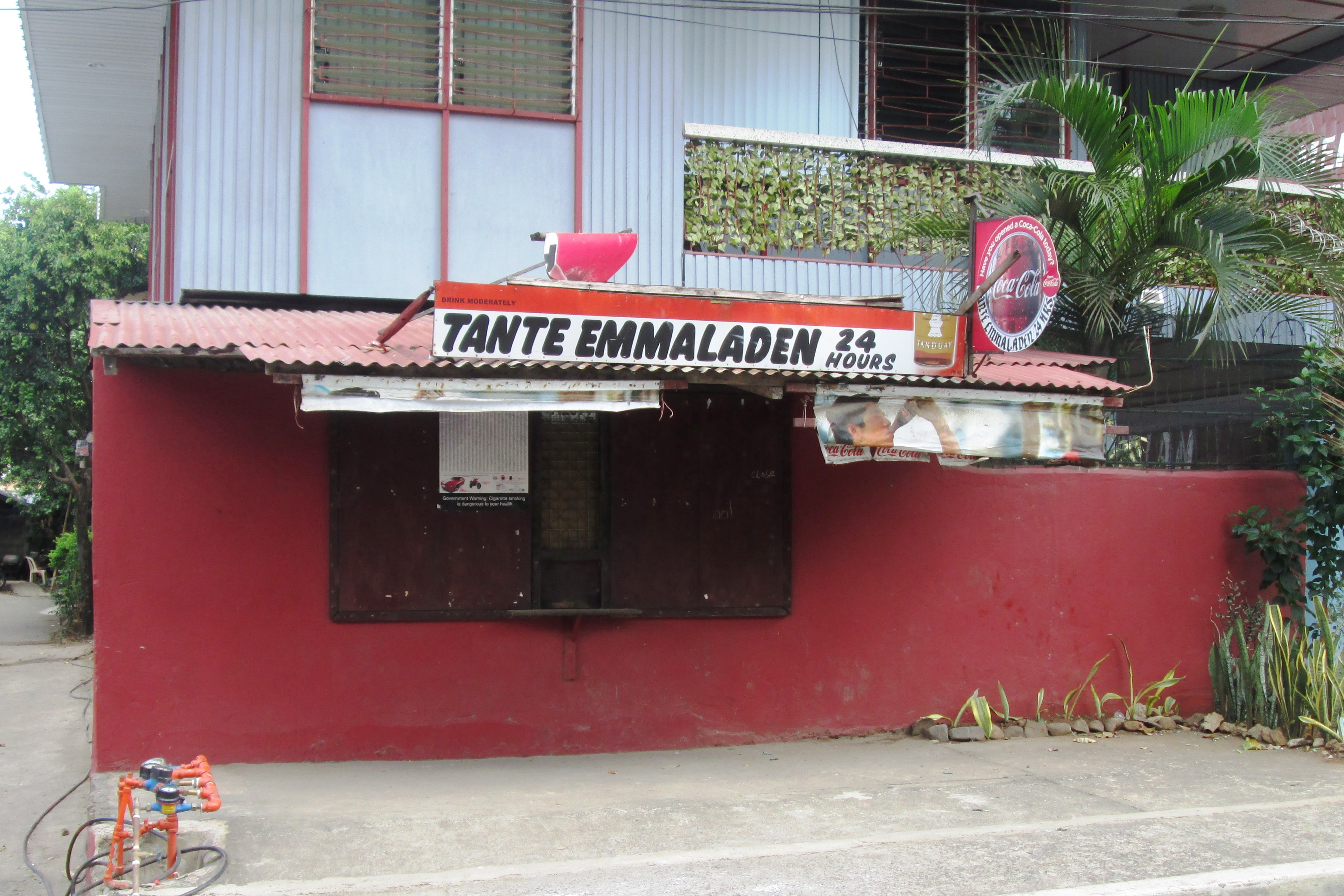 Shop in Puerto Princesa (Philippines) with german title "Tante-Emmaladen" (Aunt-Emma's-shop)